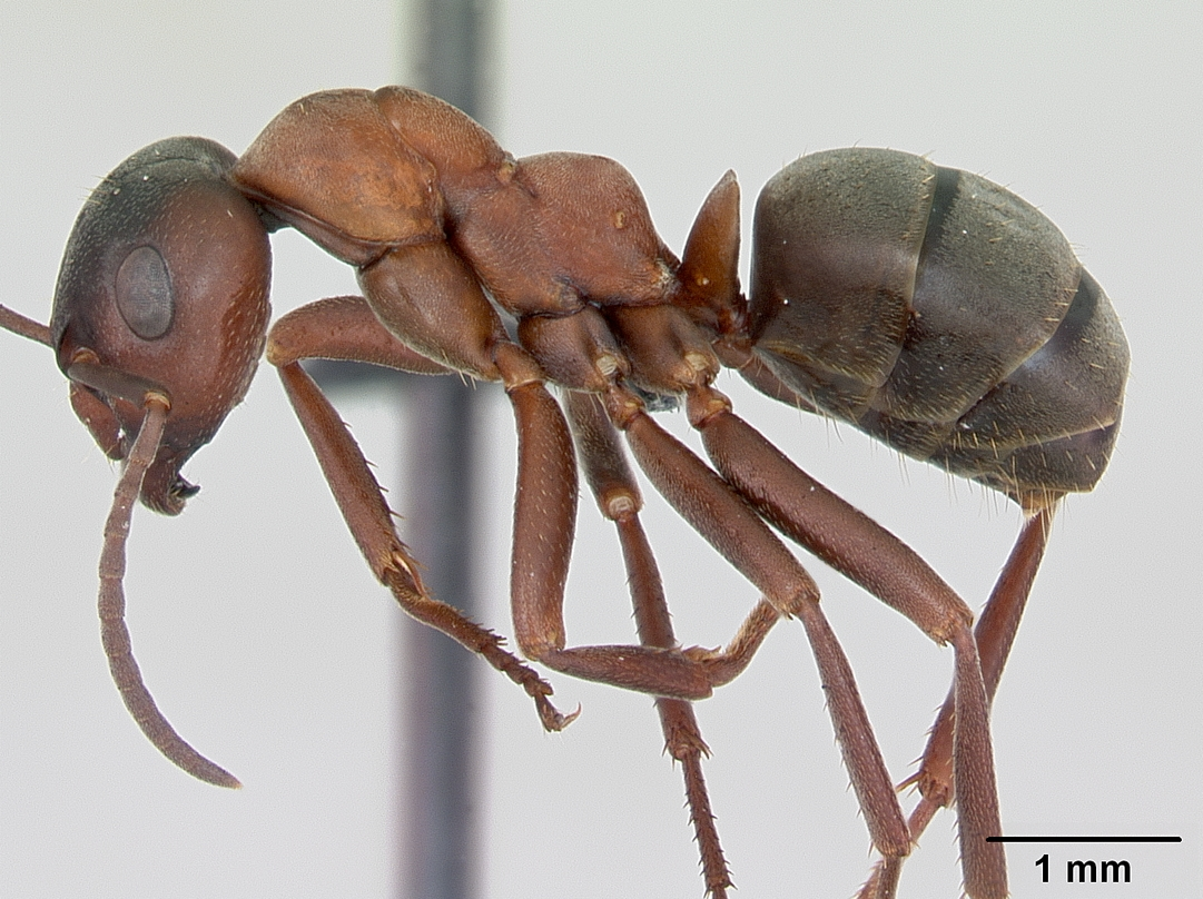 Profile view of ant Formica sanguinea specimen casent0173153.